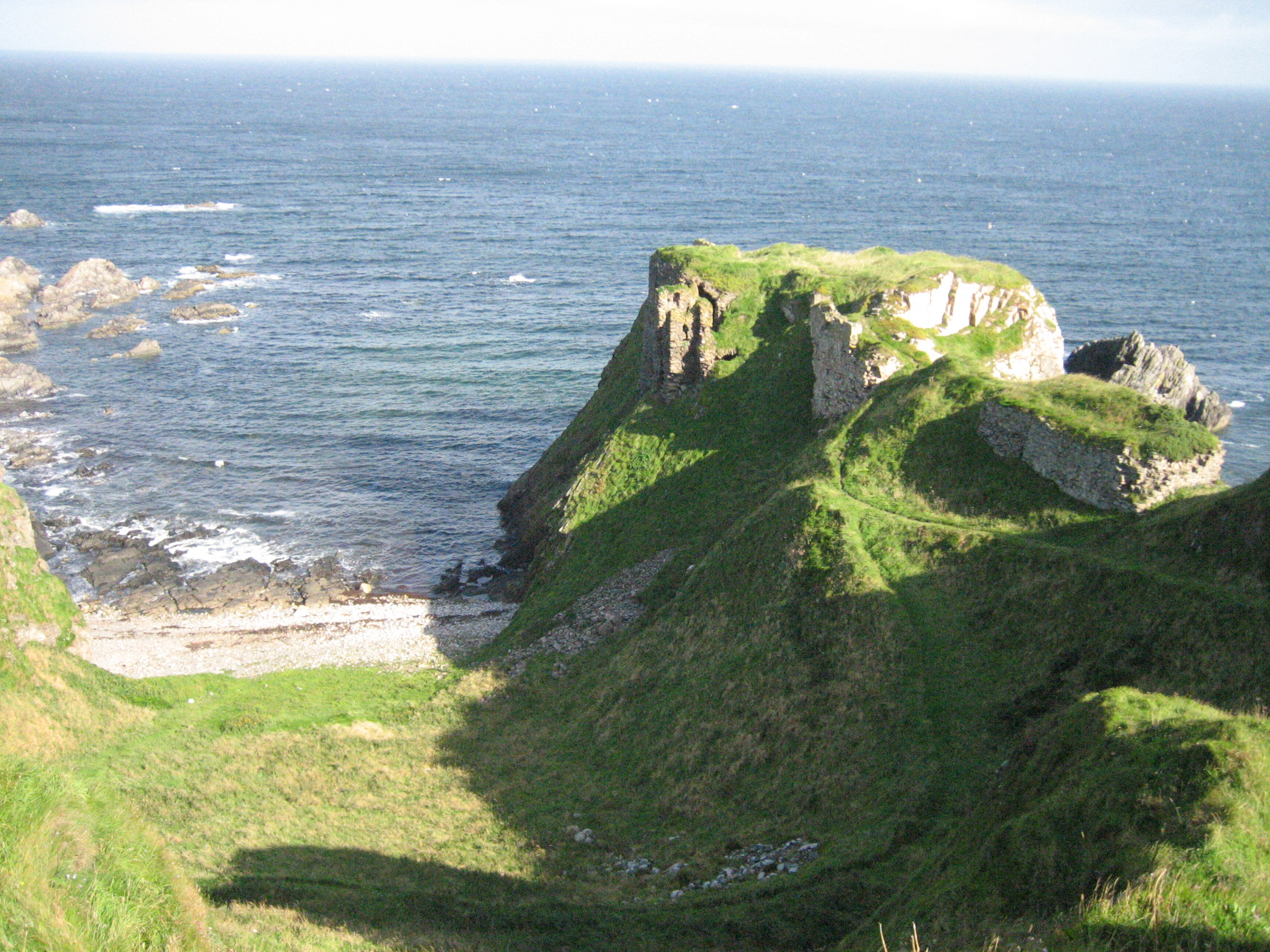 The ruins of Findlater Castle at the coast of Moray in Scotland